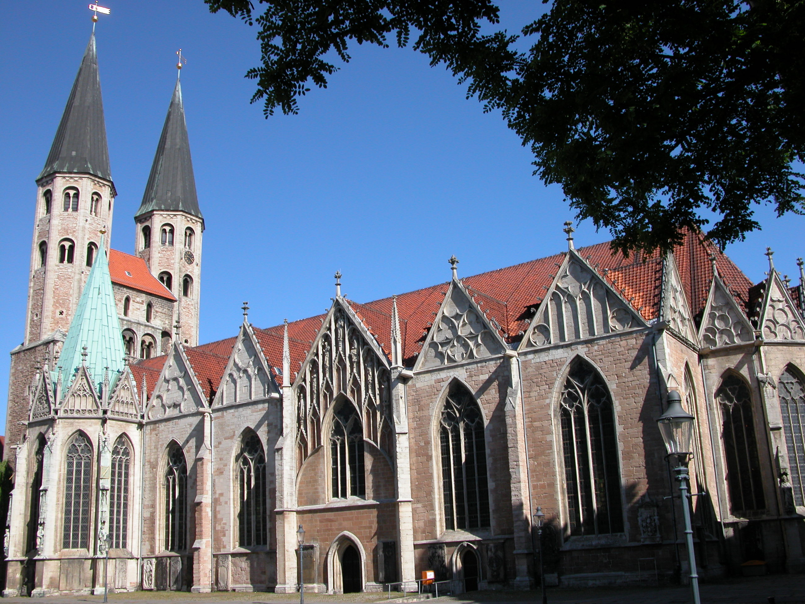 Braunschweig, Germany: South façade of St. Martin’s Church with St. Anne’s Chapell.